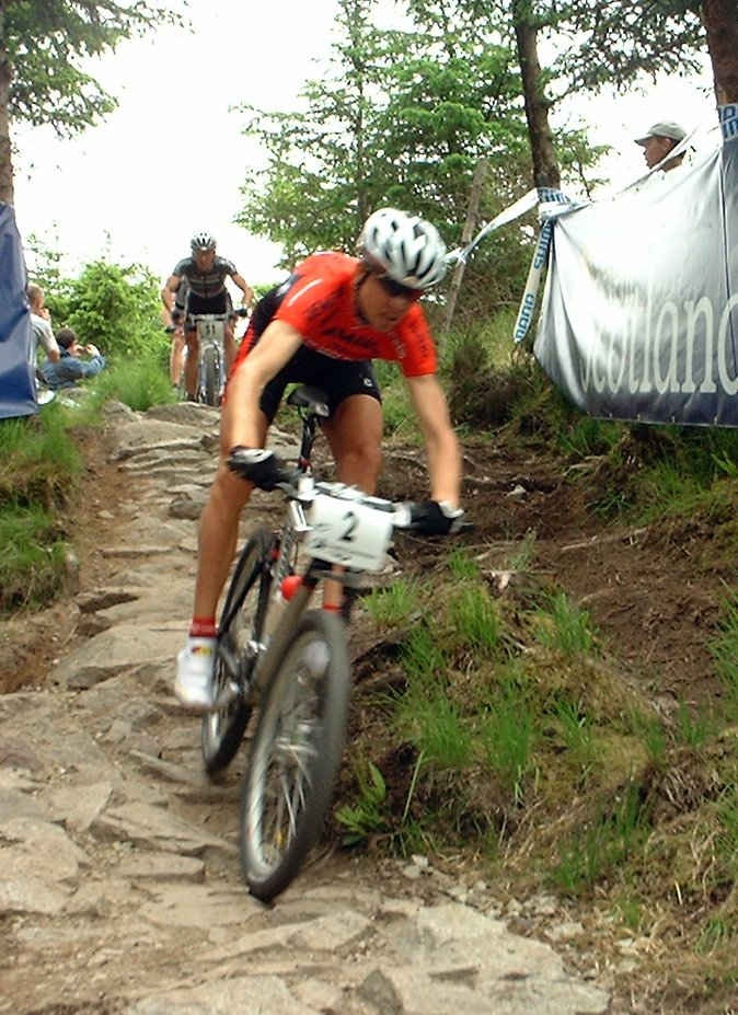 Siemens Mobile Cannondale Scalpel XC bike with 'Lefty' fork racing at Fort William 2004.